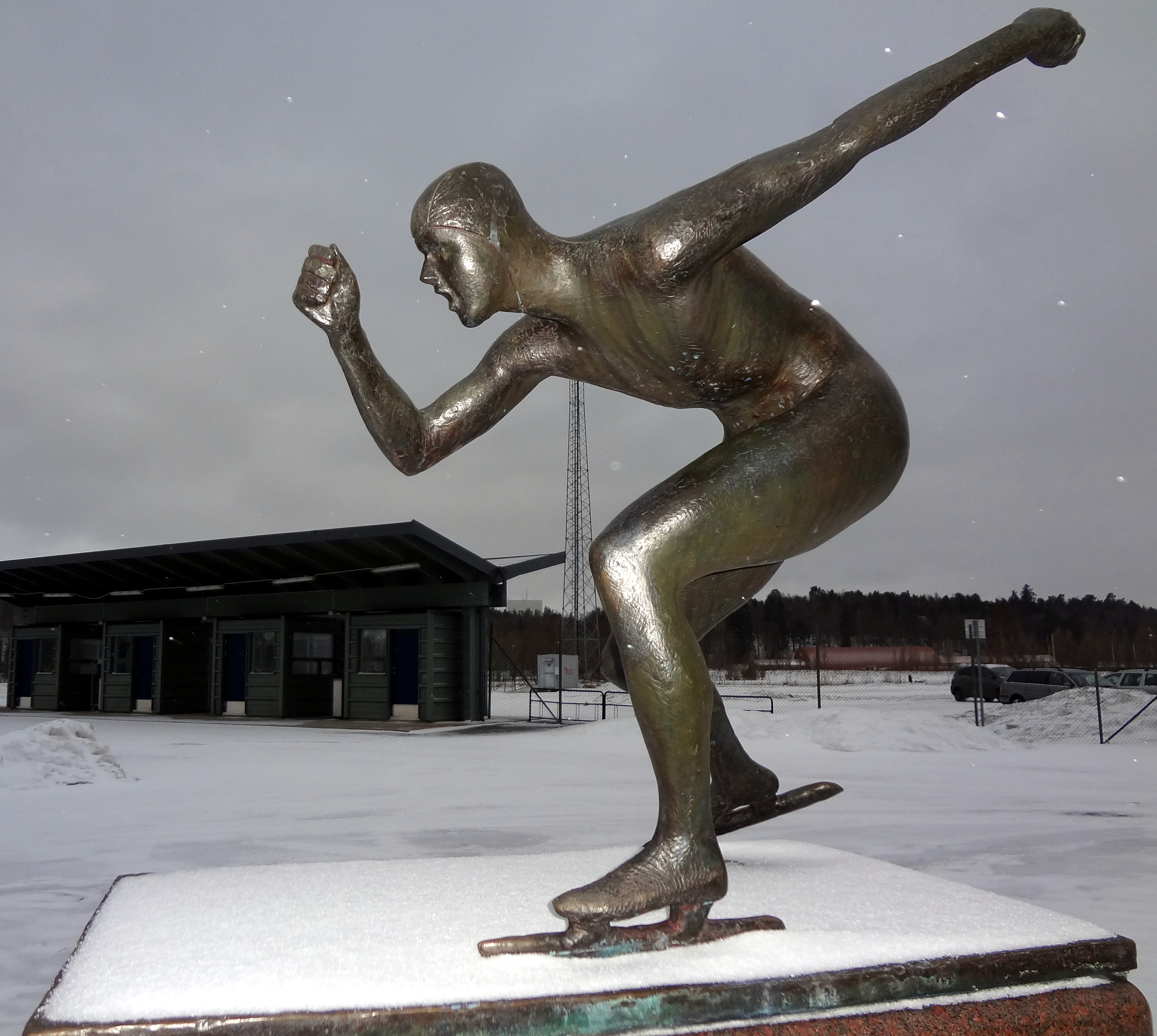 Statue of ice skater. Made by Thomas Qvarsebo in bronce 1990. Placed at ice skating arena in Eskilstuna.